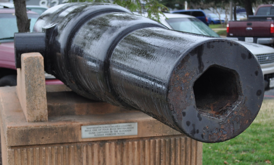 Front view of the 70-pounder Whitworth gun from Princess Royal in Willard Park at the Washington Navy Yard. The muzzle shows the hexagonal rifling.